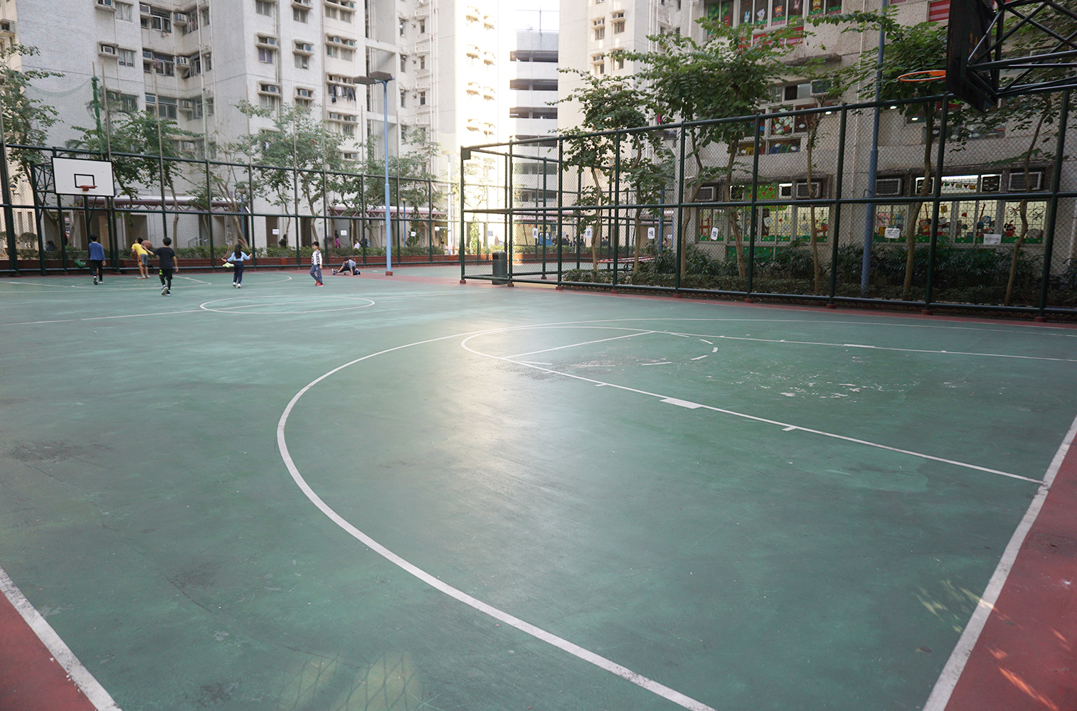 Beverly Garden in Tseung Kwan O, Hong Kong.